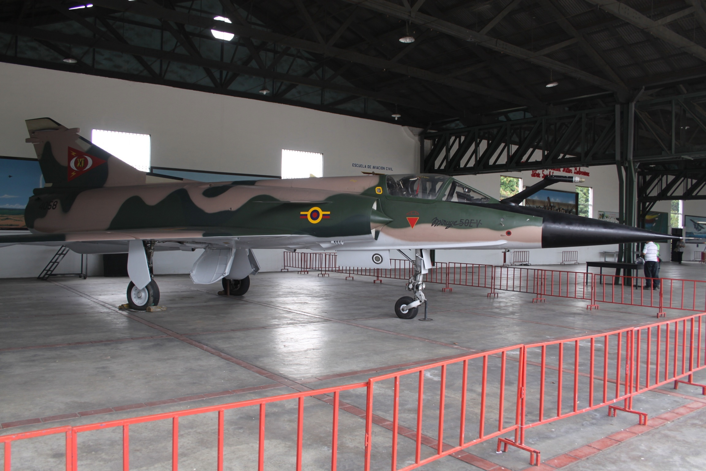 At Museo Aeronáutico de Maracay